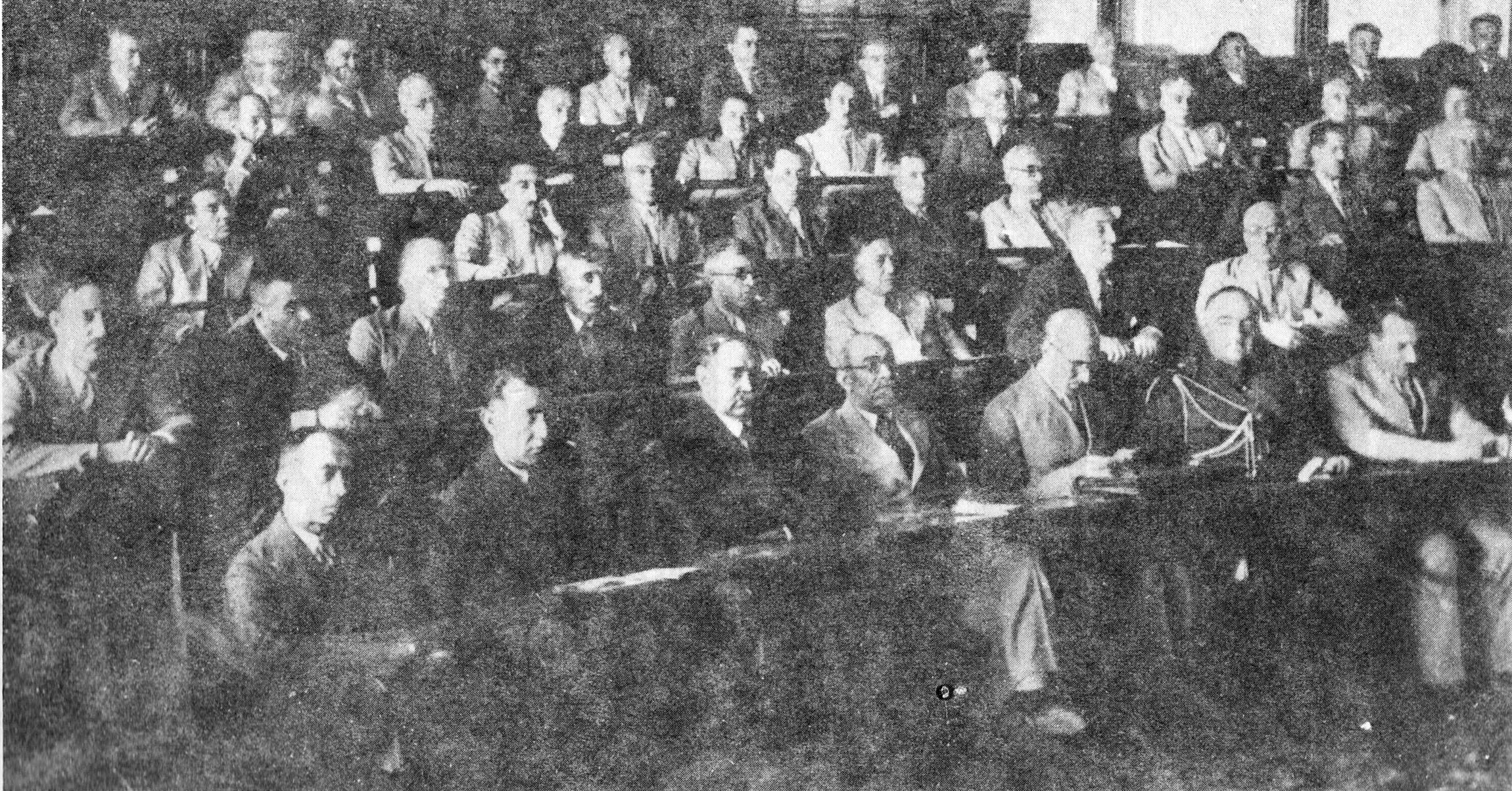 Cabinet Prime Minister Foroughi in Majlis (Foroughi, Jam, Davar, Mansur, Sadr, Nezamedin Hekmat, Ali Alsghar Hekmat, Gen. Nakhjavan, Bayat, Mozaffar Alam, Soheyli)